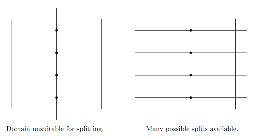 A depiction the same set of points in a region in a K-D-B-tree showing the importance of choosing the right domain to split by. On the left, all points create the same splitting plane and do not divide the point set into two separate sets.